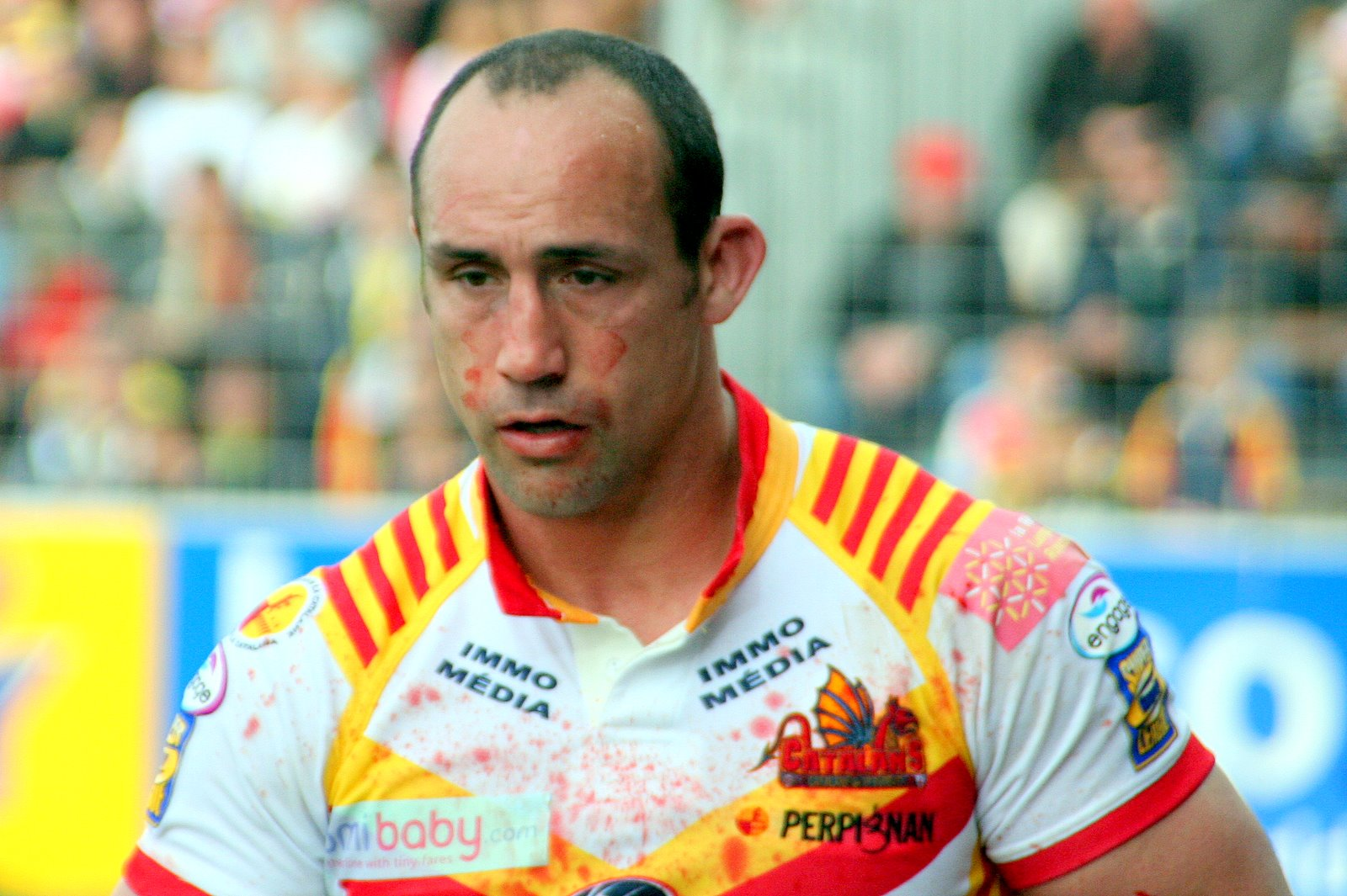 Jason Croker, Australian rugby league player.